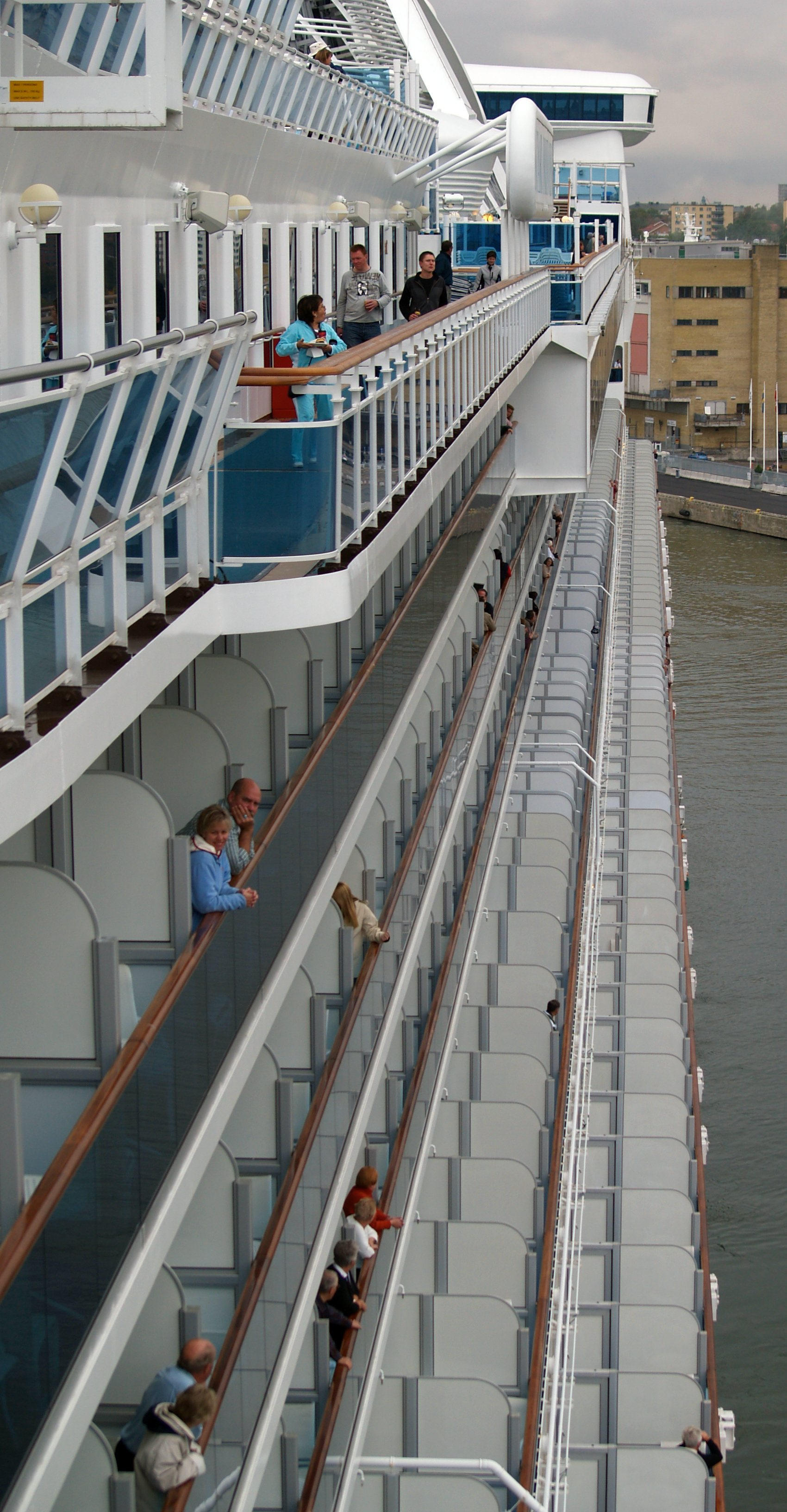 The following is the author's description of the photograph quoted directly from the photograph's Flickr page. "IMO number : 9192363 Name of ship : STAR PRINCESS Call Sign : ZCDD6 Gross tonnage : 108977 Type of ship : Passenger (Cruise) Ship Year of build : 2002 Flag : Bermuda Status of ship : In Service "